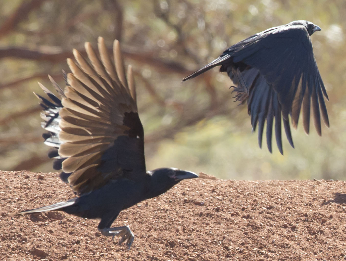 strange crow markings under the wings, i have never seen them. I have greater minds looking into it?